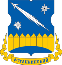 Ostankinsky (rayon of Moscow), coat of arms